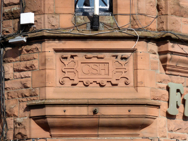 Former Glasgow Soldiers' Home